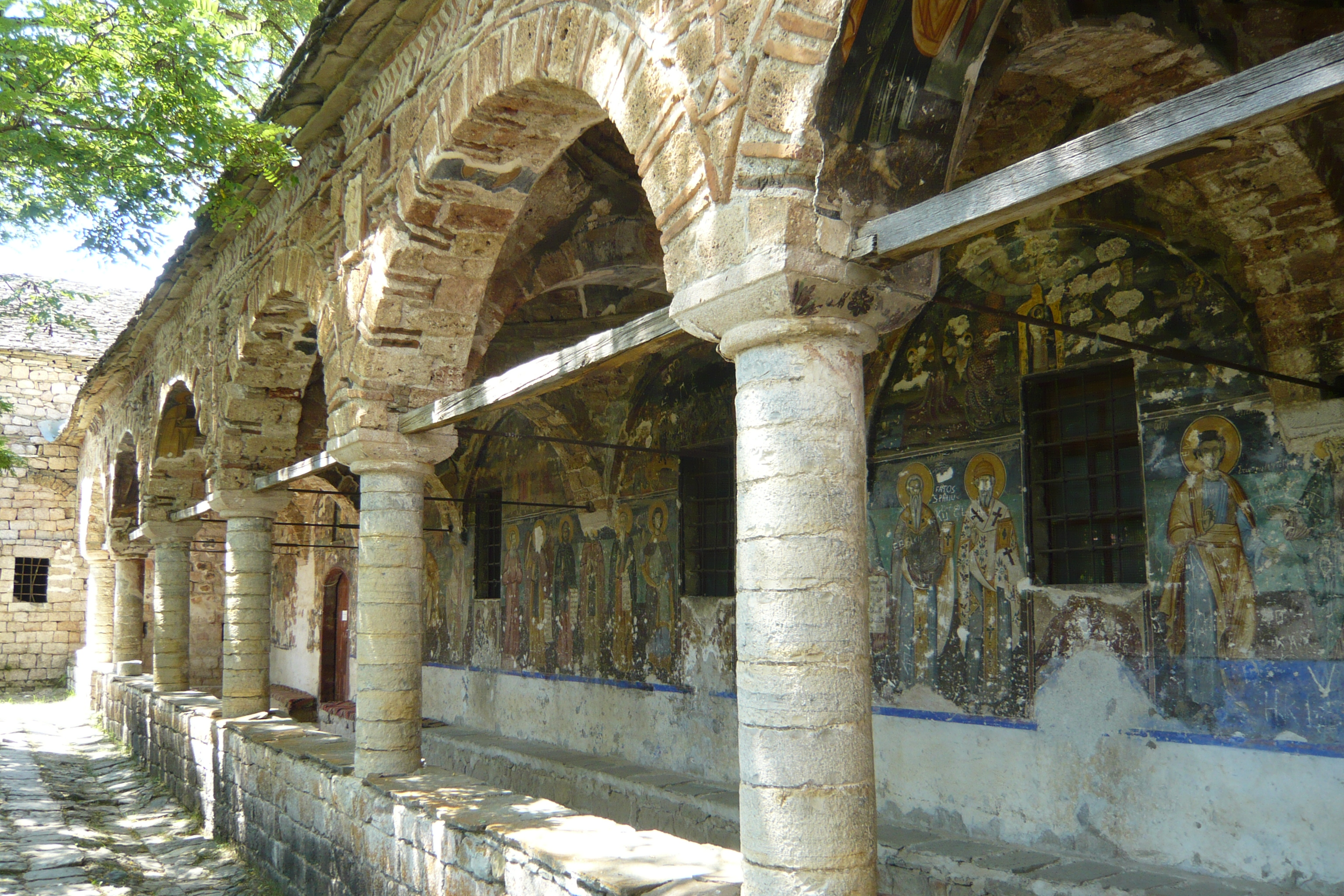 St. Nicholas' Church in Voskopojë (Moscopole)